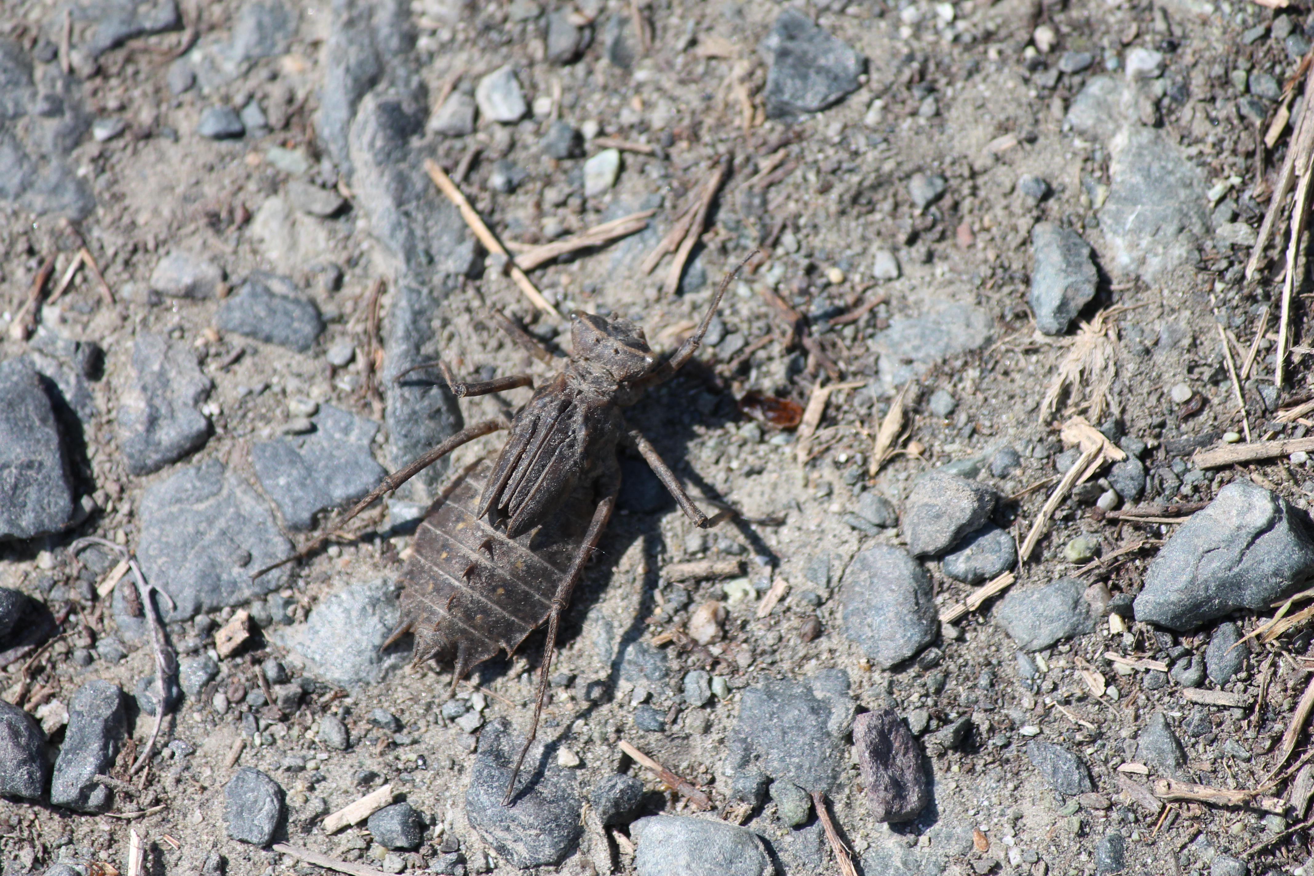 Matured nymph dragonfly species Epitheca bimaculata crawl from the reservoir to the plant stems . Larval development takes place in various types of standing water , especially small and overgrown with floating hydrophytes , but usually deep . It tends to occur in forest landscapes . Dragonflies different fast and beautiful flight. Lives dragonfly just 2 weeks . The female lays eggs in water in the form of a long cord , which she produces during the flight with the low end of the abdomen touching the water surface. The larvae are near the bottom .